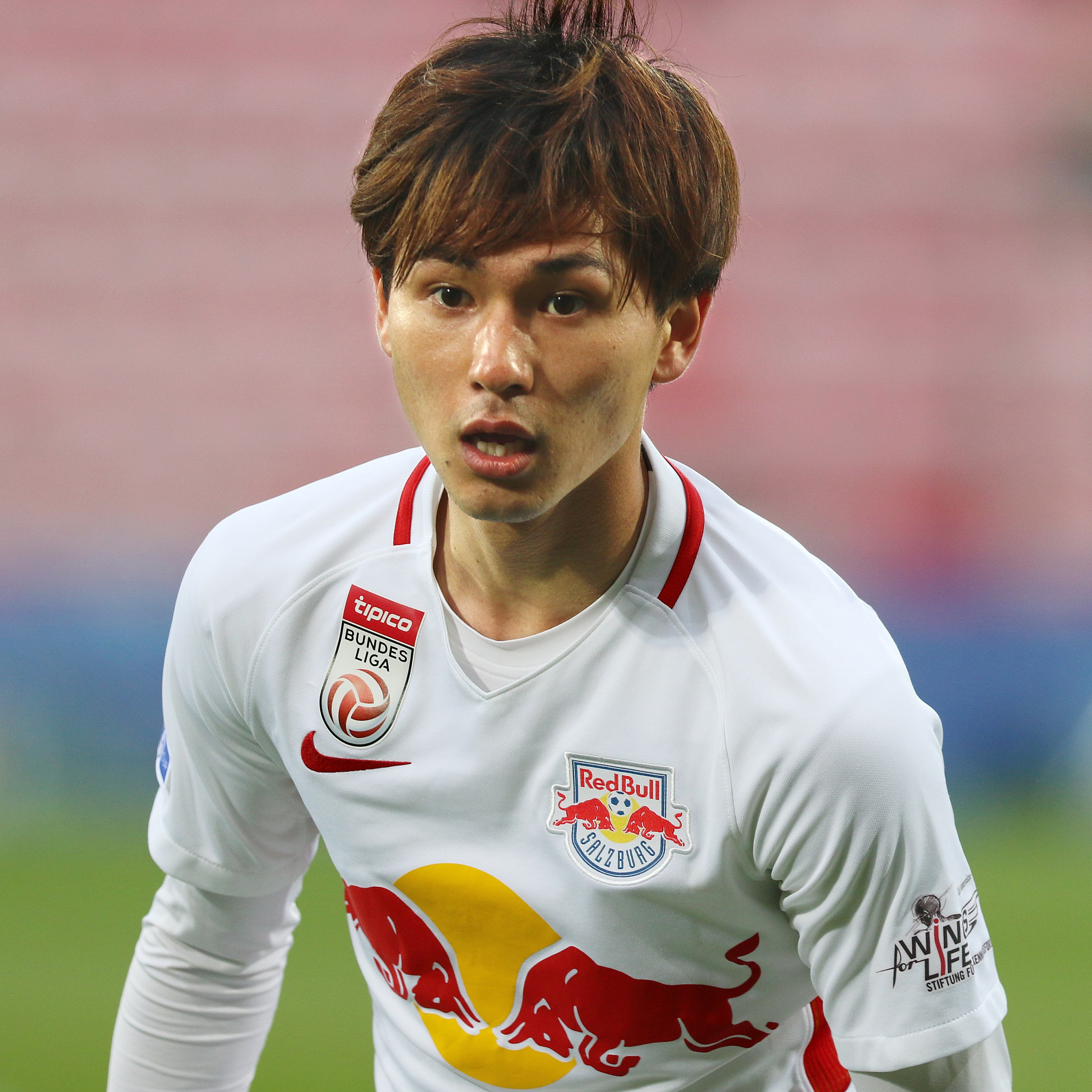 2016–17 Austrian Cup: FC Admira Wacker Mödling (red shirts) vs. FC Red Bull Salzburg (white shirts) at 26. April 2017 in the BSFZ-Arena in Maria Enzersdorf 0:5 (0:2) – The photo shows Takumi Minamino